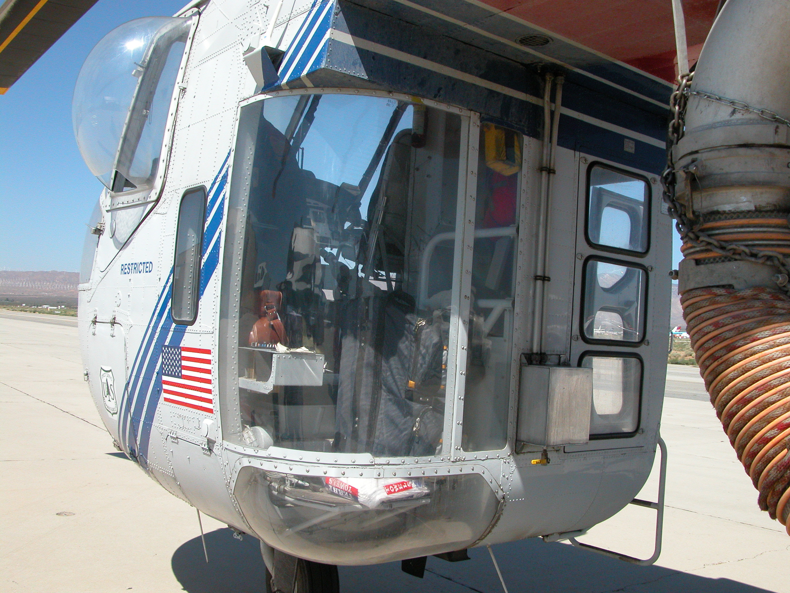 Cockpit of a Heavylift CH-54A Skycrane